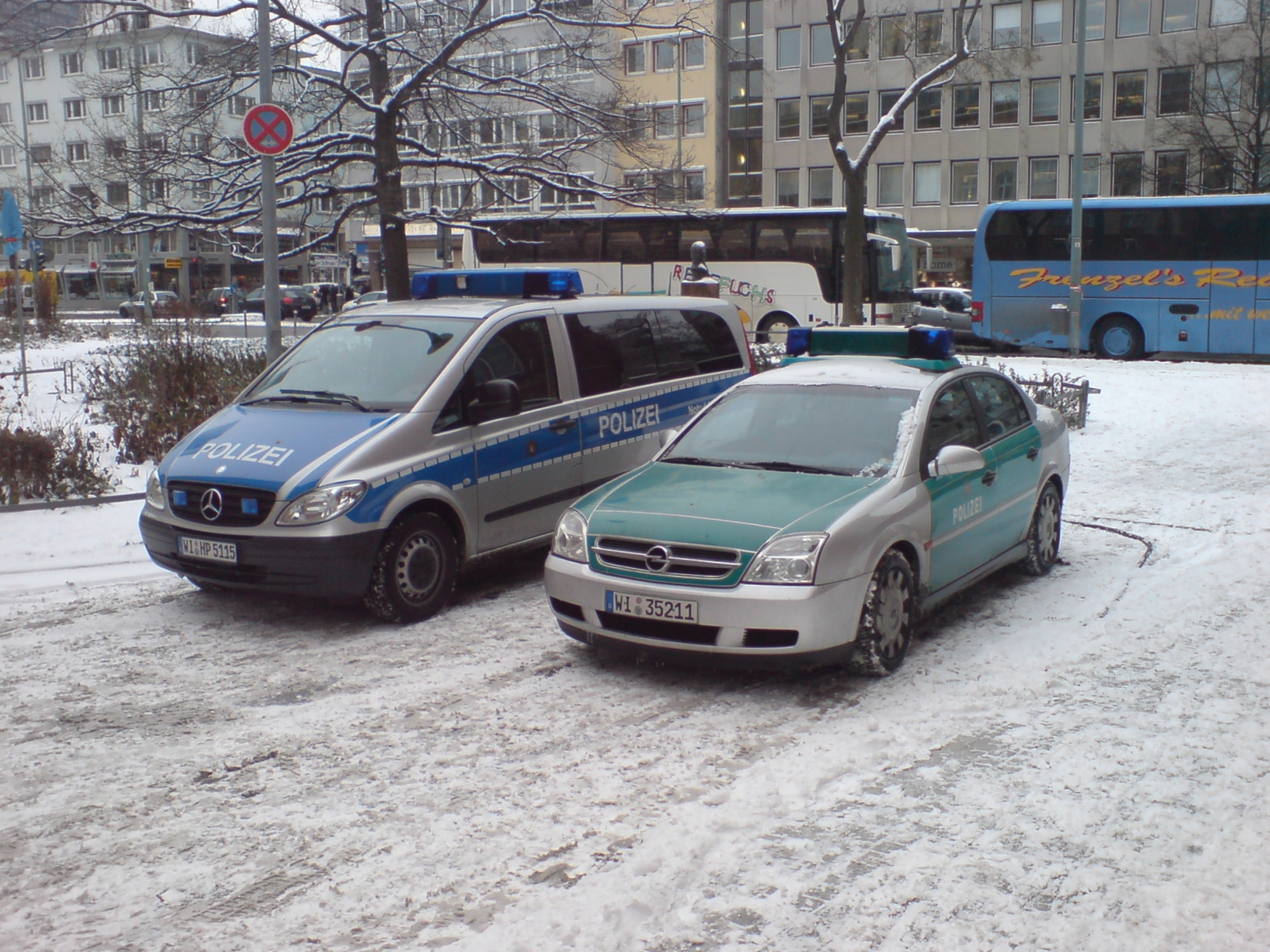 Vehicles of the Police of Hesse in the new (blue) and the old (green) livery, seen in Frankfurt, Germany. Note that the green-silver livery is itself an update - earlier (up to about the 1990s) vehicles used green-white. However, the white colour apparently significantly lowered the resale price of the cars once the police sold them off. Not sure if that's really true, though.